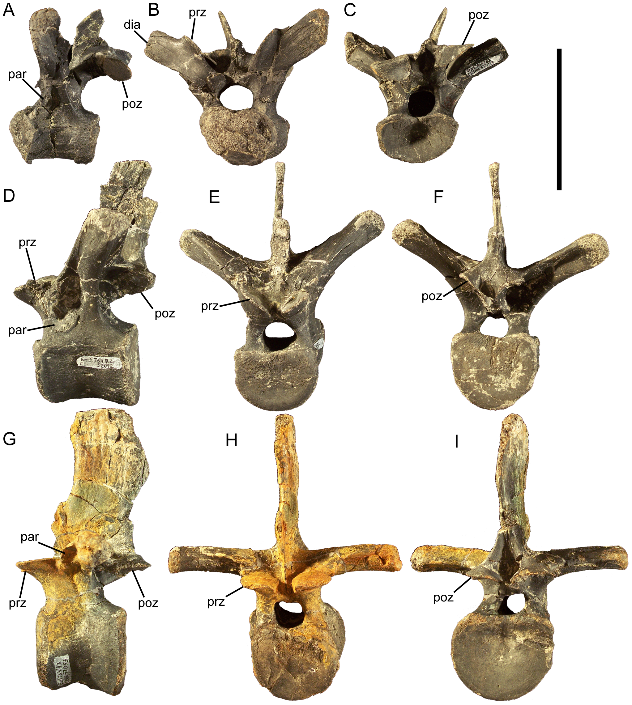 Dorsal vertebrae of Eolambia. Cranial dorsal CEUM 52173 (WS8) in (A) left lateral, (B) cranial, and (C) caudal views. Middle dorsal CEUM 52092 (WS8) in (D) left lateral, (E) cranial, and (F) caudal views. Caudal dorsal CEUM 52053 (WS8) in (G) left lateral, (H) cranial, and (I) caudal views. Abbreviations: dia, diapophysis; par, parapophysis; poz, postzygapophysis; prz, prezygapophysis. Scale bar equals 10 cm.